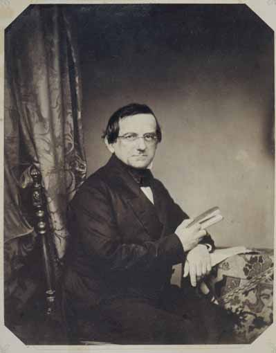 The german pysician Franz Xaver von Gietl(1803-1888)